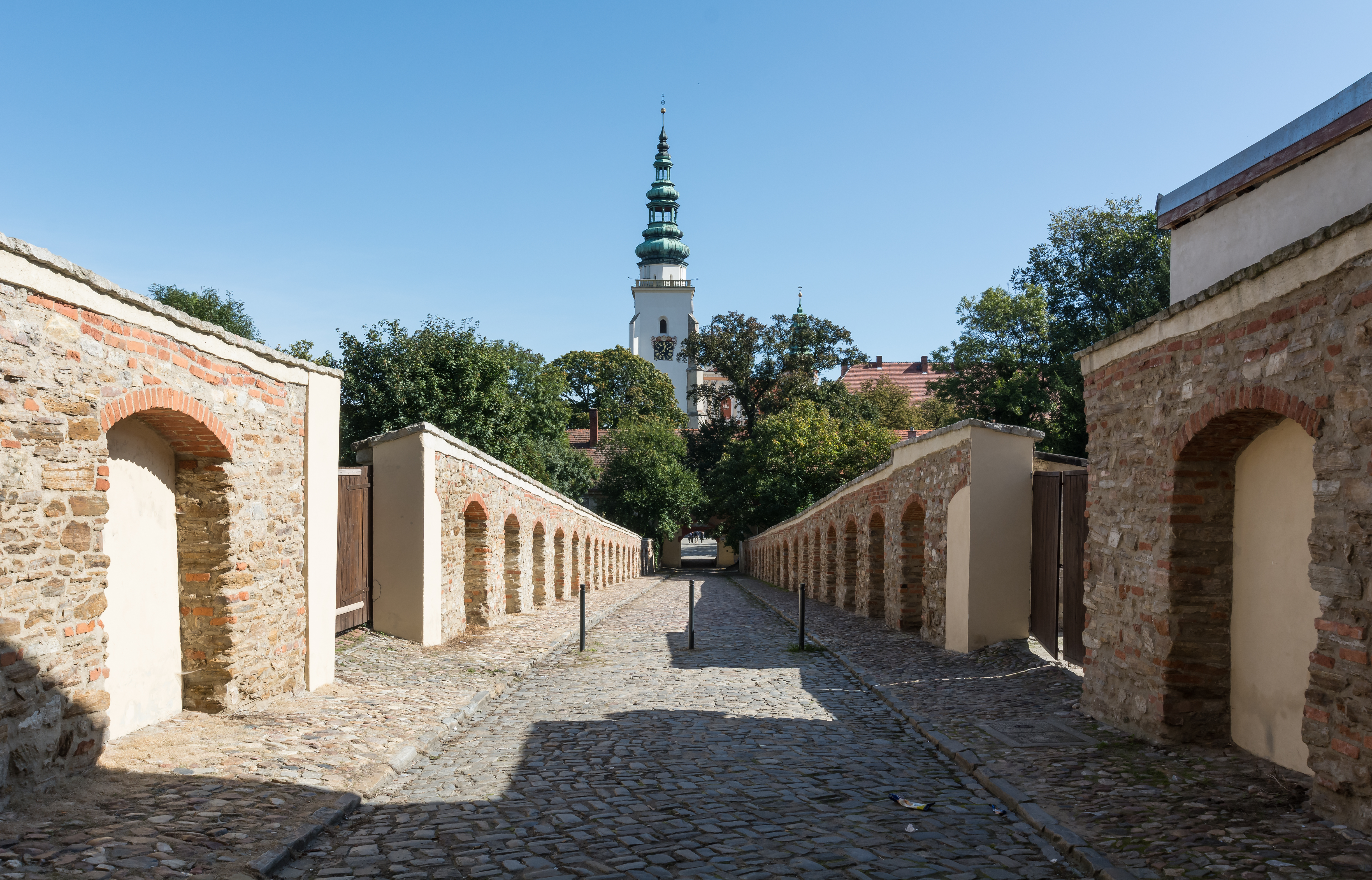 Road to the folwark in Henryków